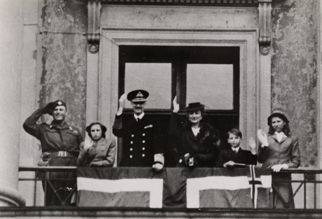 King Haakon returns to Norway after World War II.